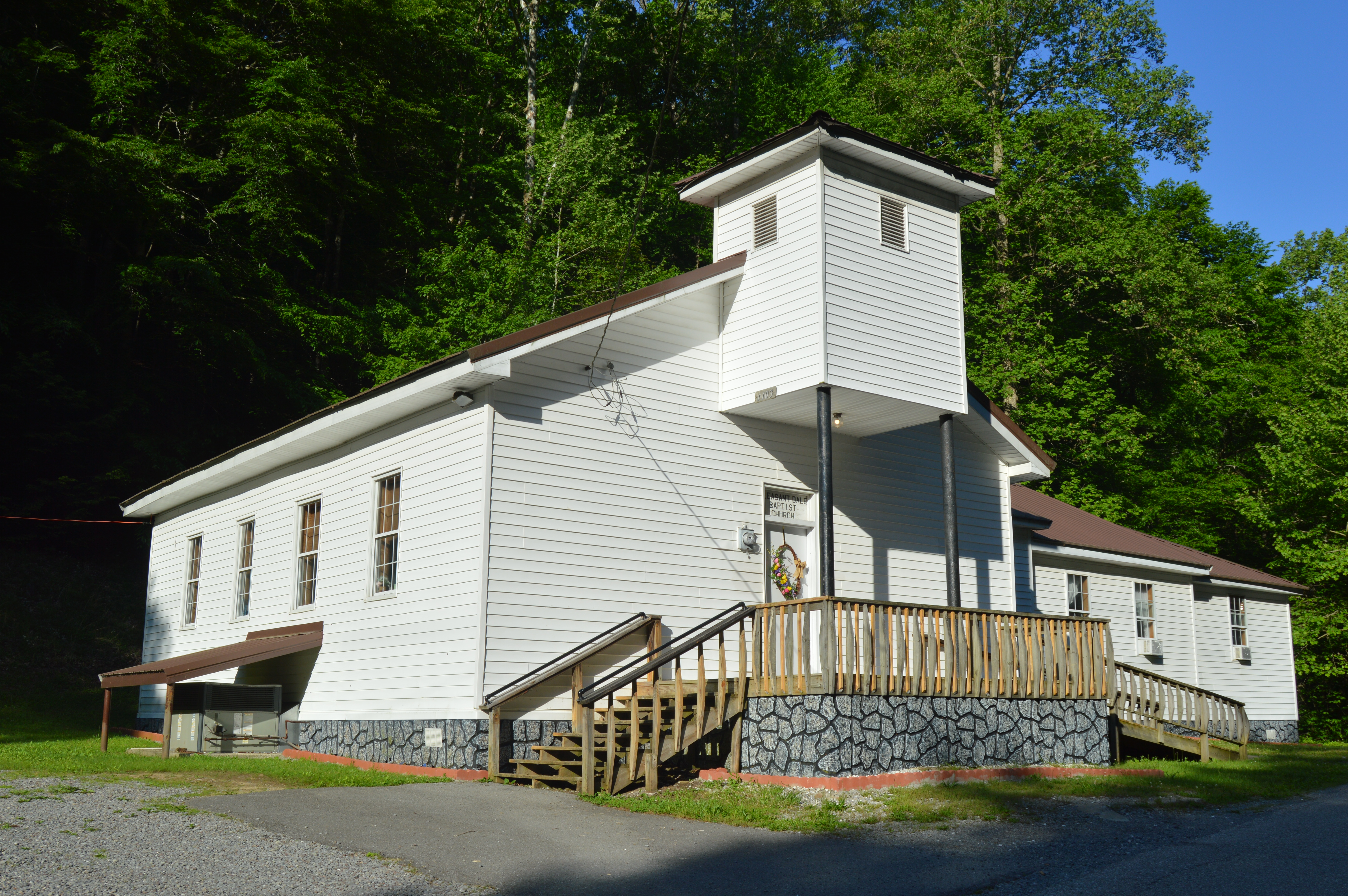 Front and western side of Pleasant Dale Baptist Church, located at 1103 Cressmont Road along Dog Run at Cressmont in Clay County, West Virginia, United States.